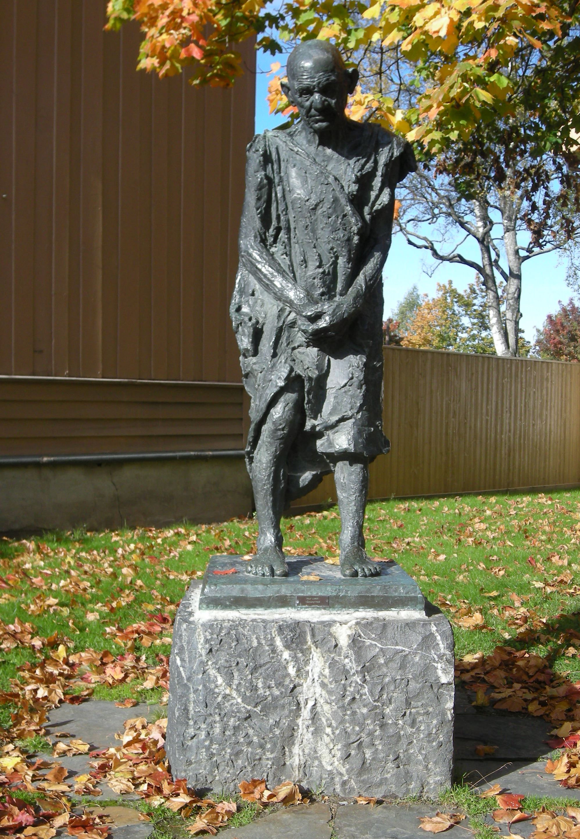 Bronze statue of Petter Syversen near Lillehammer church